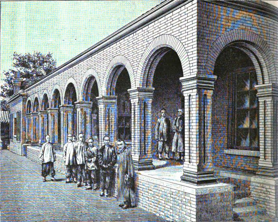 Photograph of new dispensary of An-Ting Hospital in Peking taken before 1889, built by the Misses Stokes. The door into the dispensary is on the right, with two medical assistants standing in front of it. The portico with its brick arches leads to the chapel, the building to the left. An-Ting Hospital was founded by Presbyterian Church of USA.